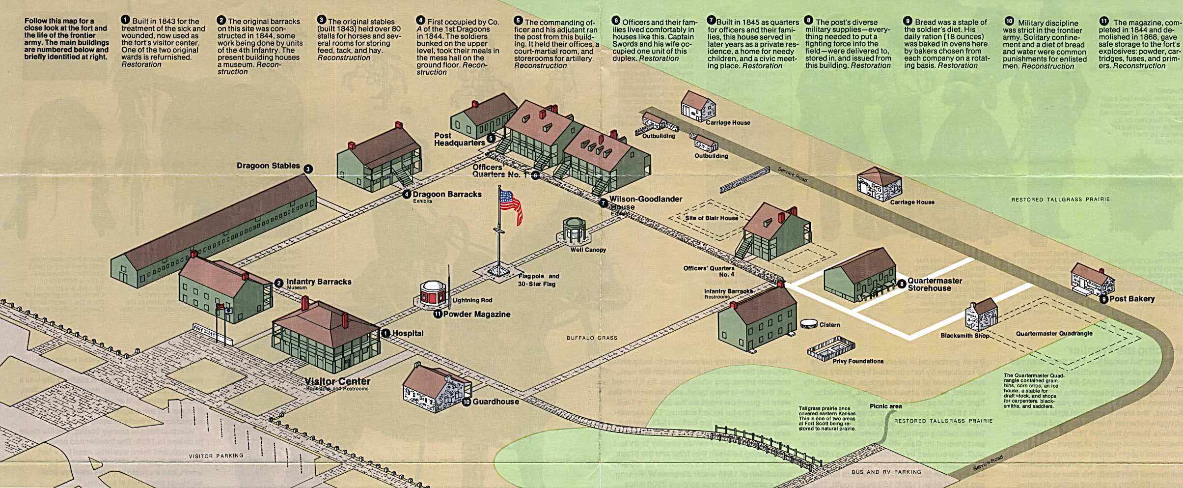 Schematic of Fort Scott National Historic site originally listed at